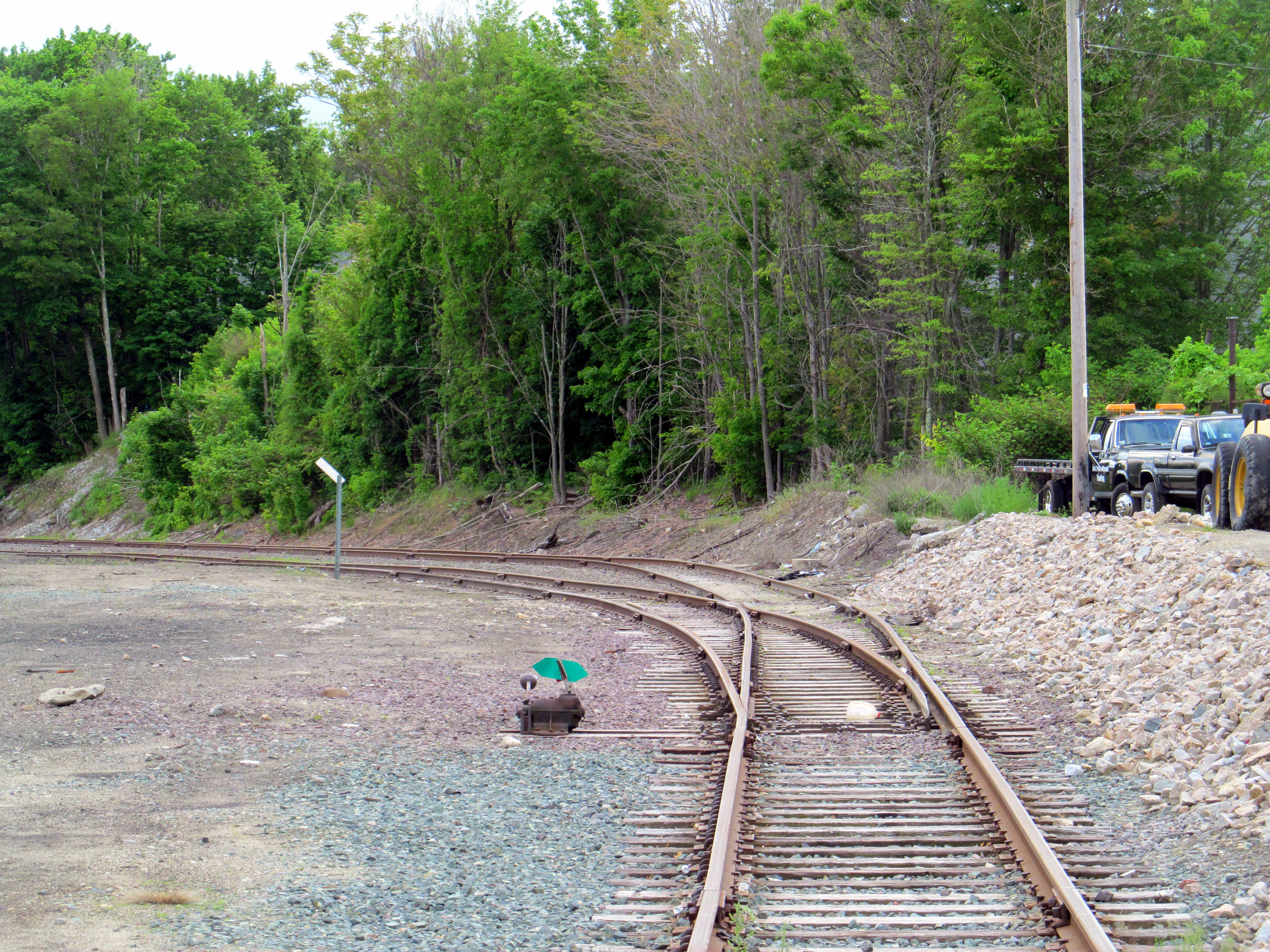 The north end of active track on the Milford Secondary, just south of Central Street in downtown Milford, in May 2017